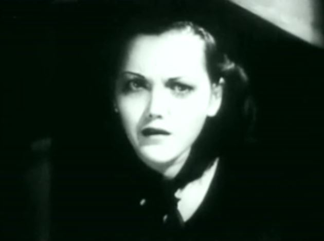 Low resolution screenshot of actress Lois January (1913 – 2006) from the American exploitation film The Cocaine Fiends aka The Pace That Kills (1935). The film is now in the public domain.